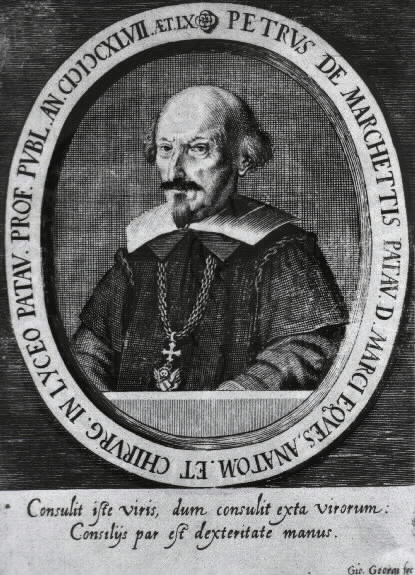 Pietro Marchetti (1589 – 1673)